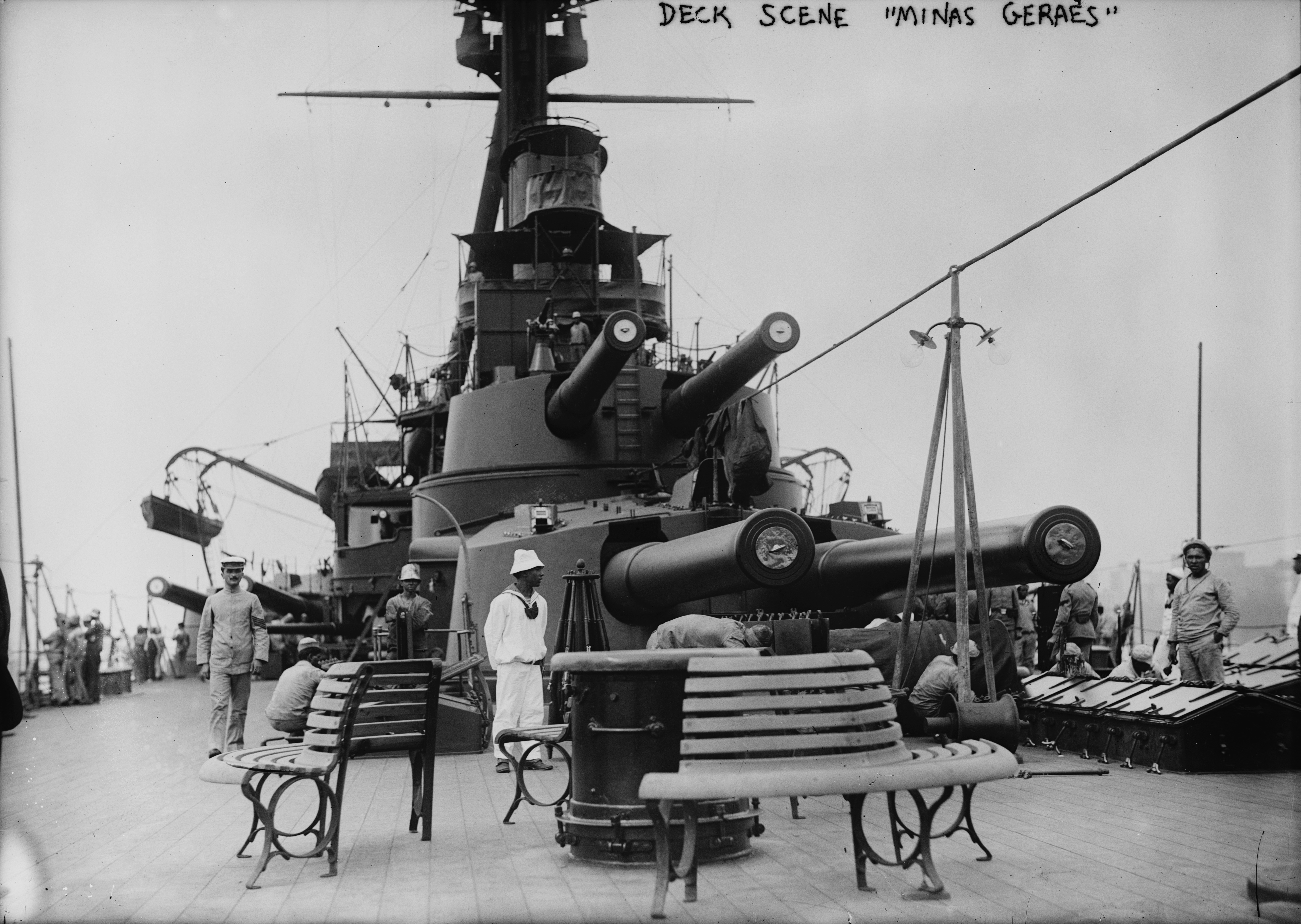 Deck scene aboard Minas Geraes